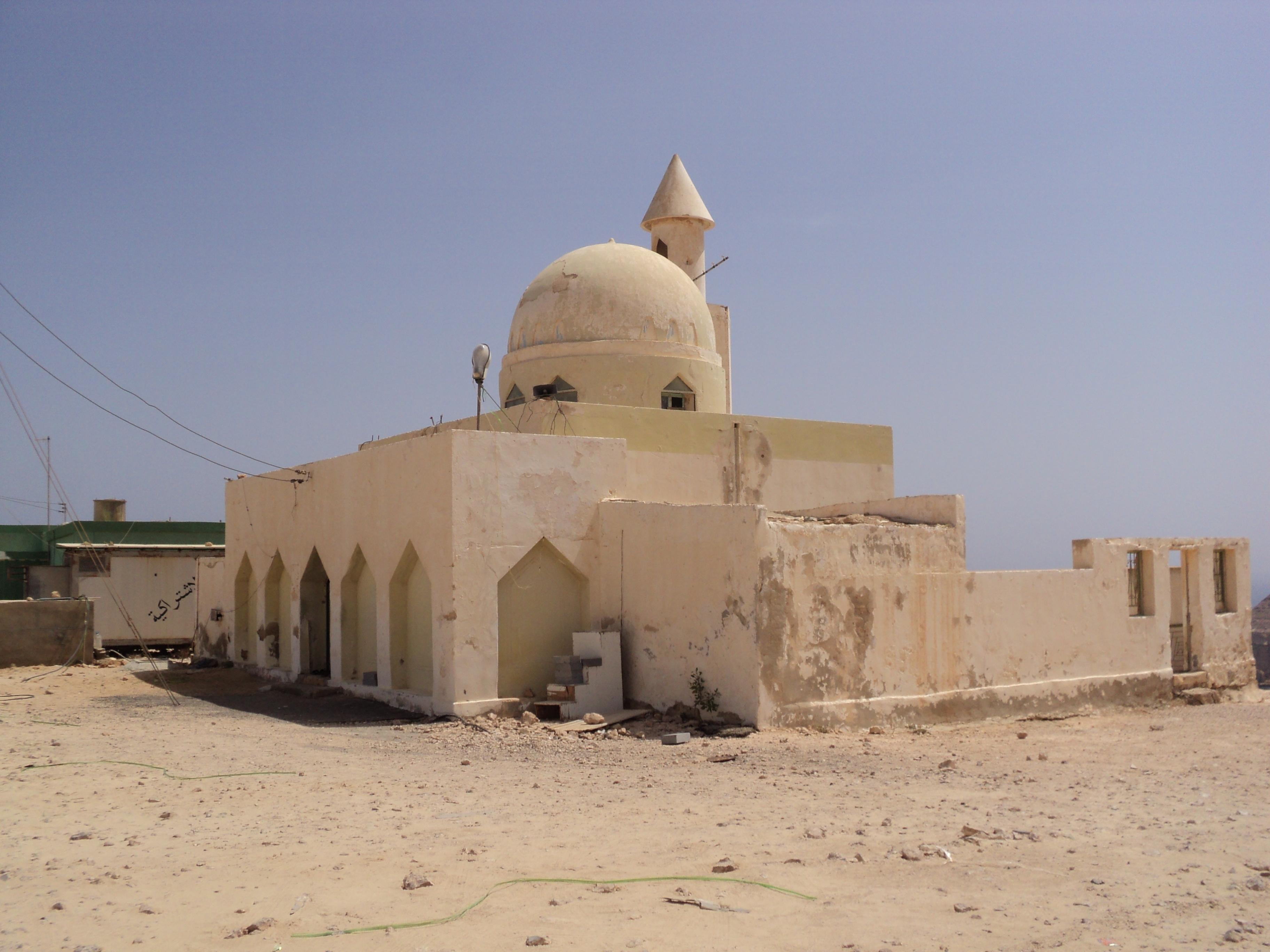 A mosque in Bardia, Libya.